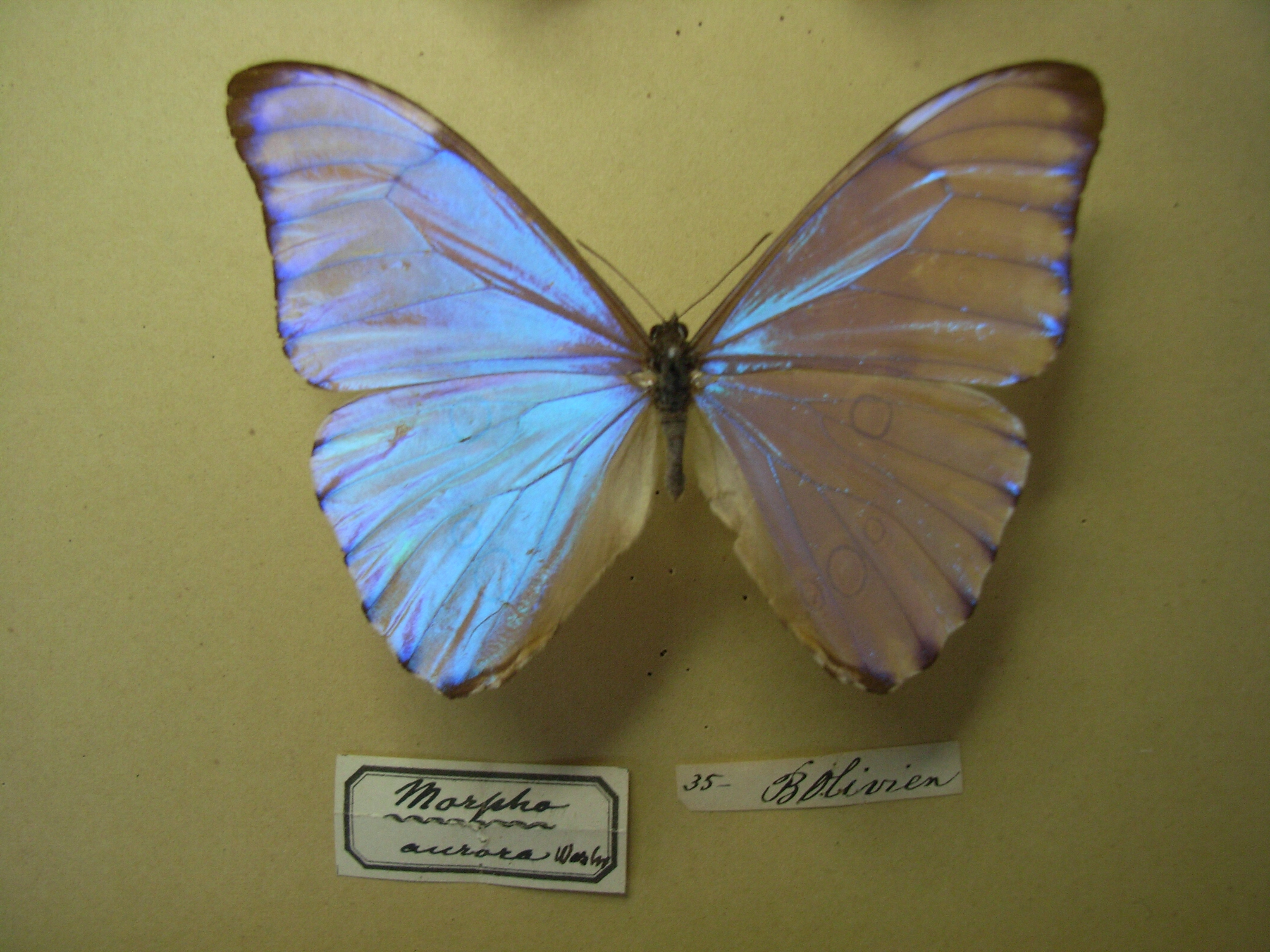 Morpho aurora Ex Coll. Museum Wiesbaden